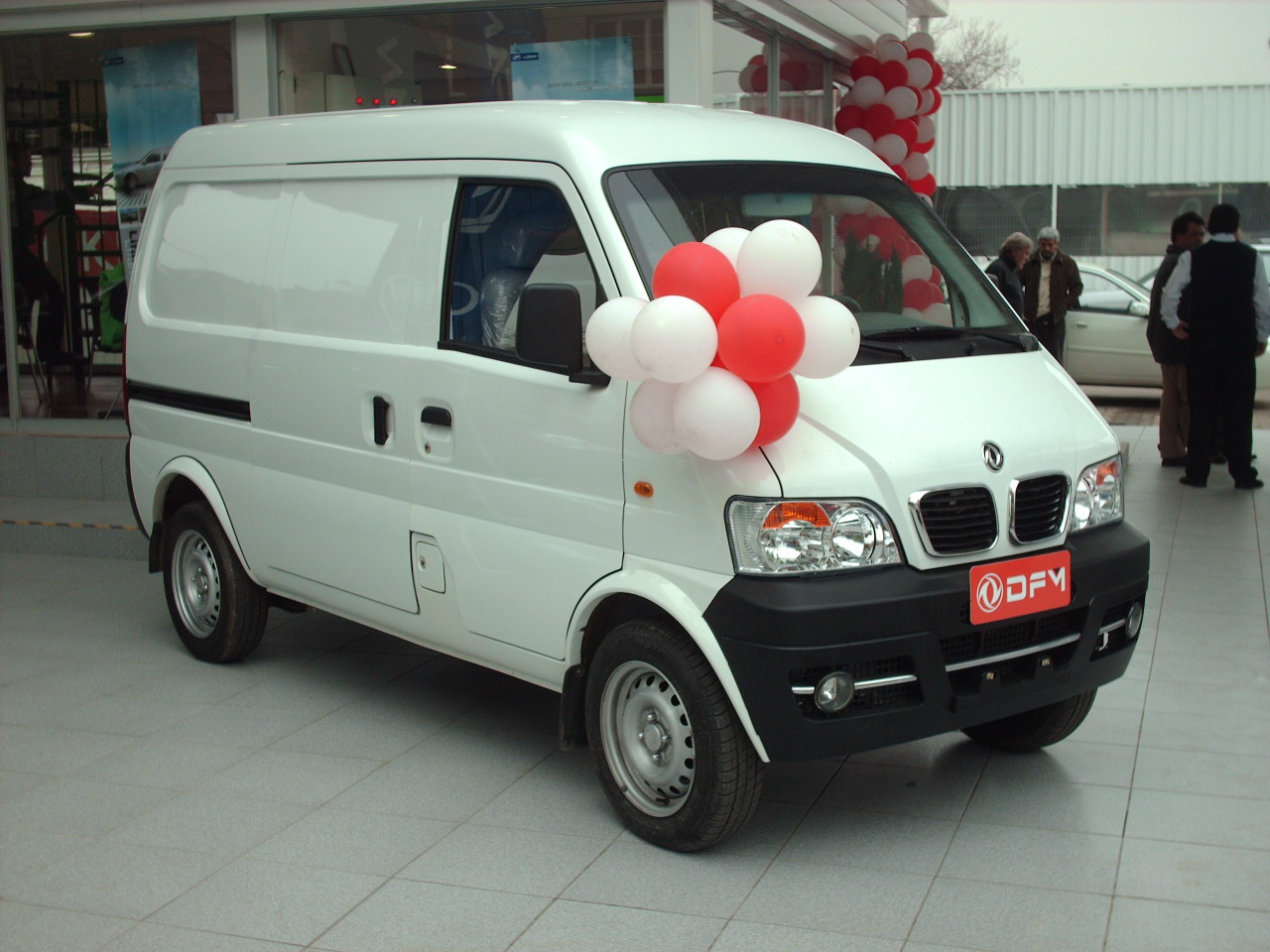 DFM Mini Van EQ5021 ("Xiaokang") new at a recently opened dealership in Santiago, Chile.